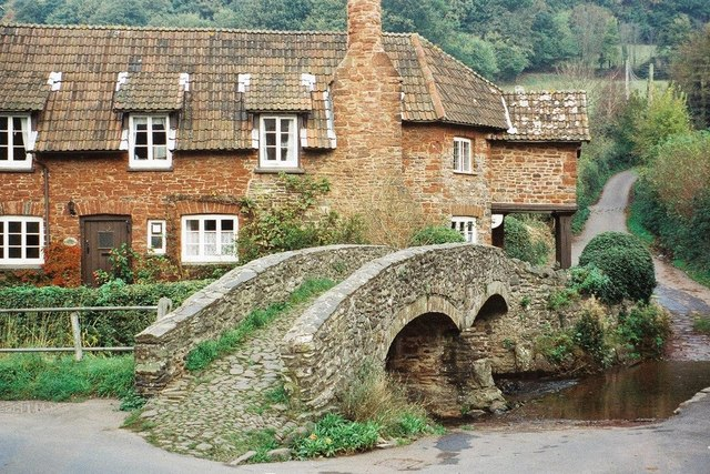 Allerford: the pack-horse bridge - and the ford on the right hand